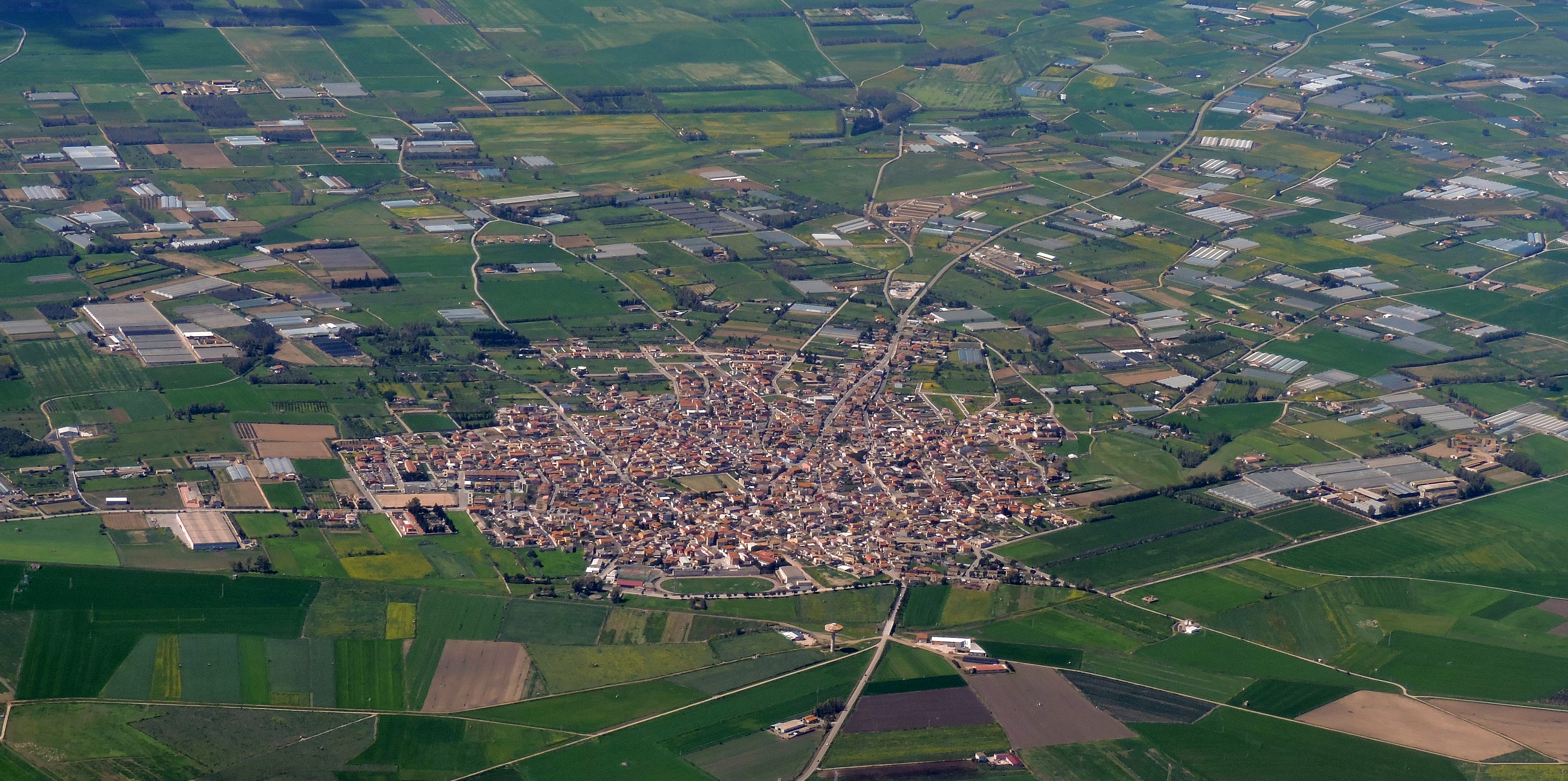 Decimoputzu aerial view (Sardinia, Italy)